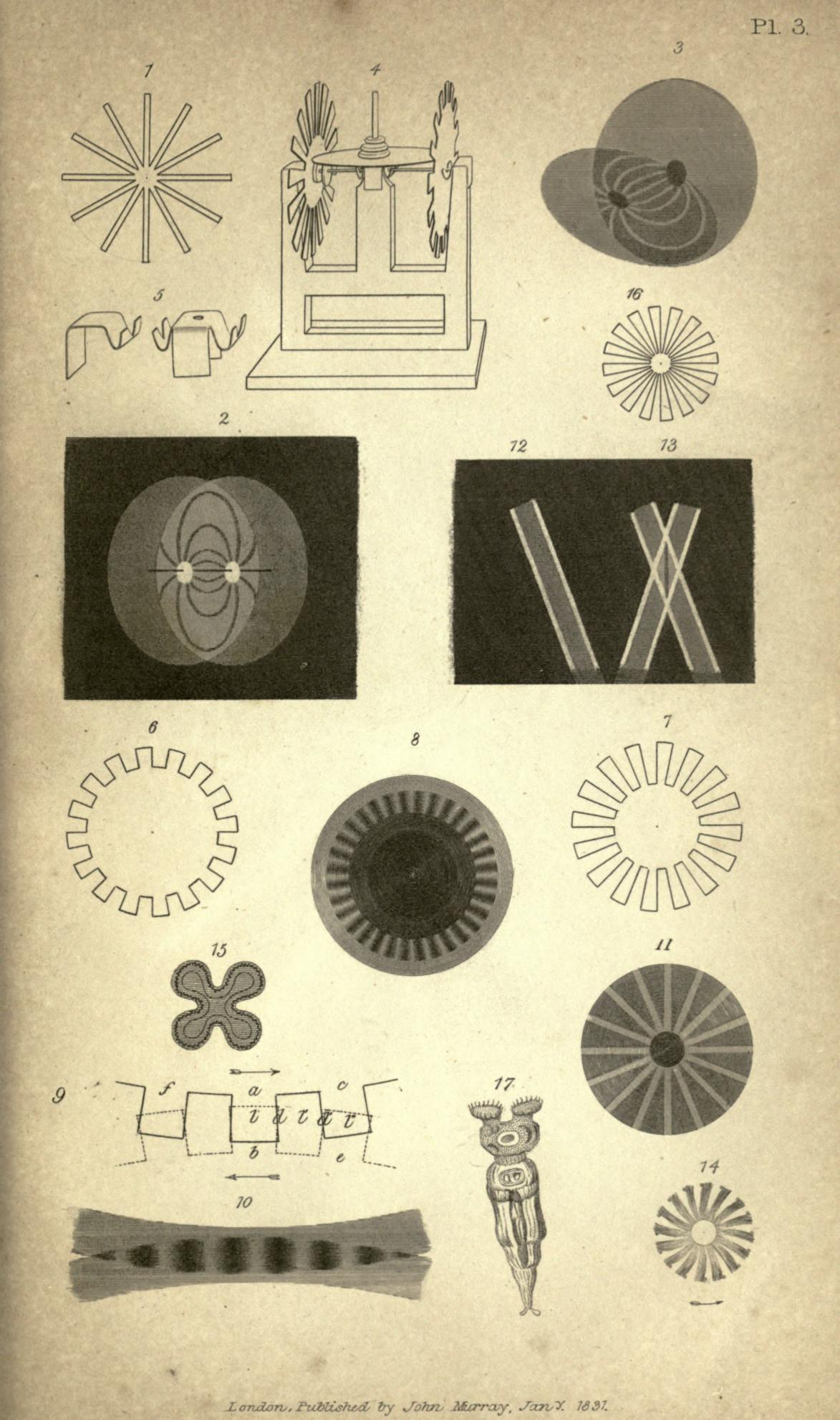 Illustrations of Michael Faraday's cogged wheel experiments (1831)